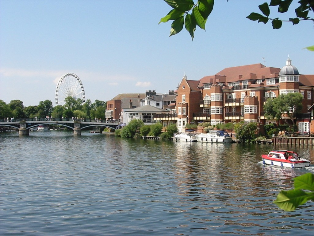 Eton Riverside